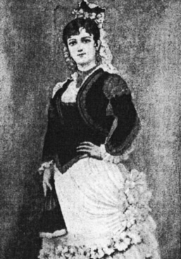 Drawing of Galli-Marié, in the original production of Carmen in 1875.